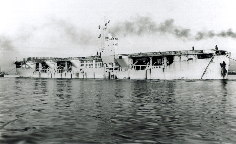 HNLMS Gadila in WWII